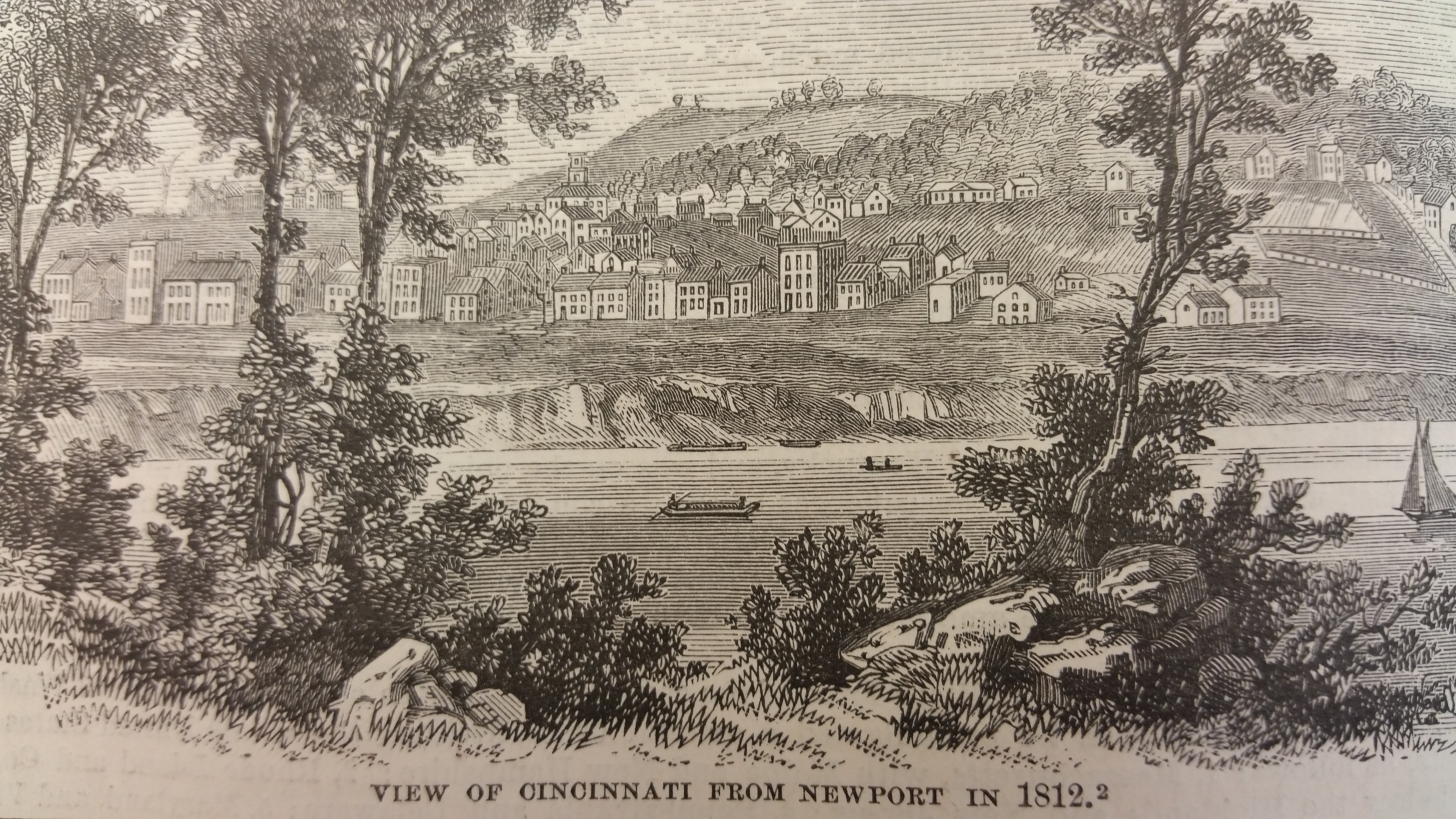 Cincinnati I